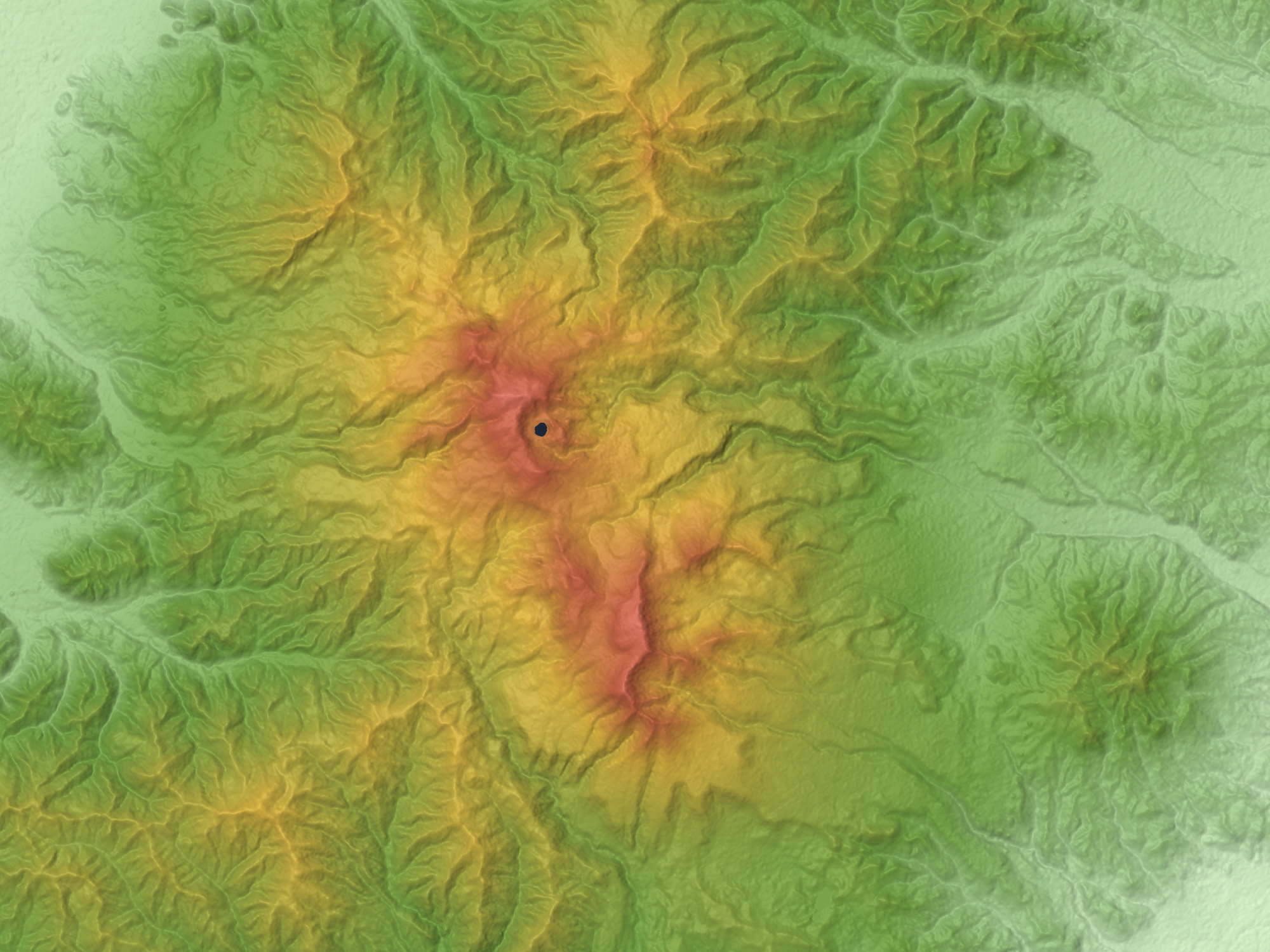 Mount Zaō is a volcano in the border between Miyag and Yamagata Prefectures, Honshu, Japan.